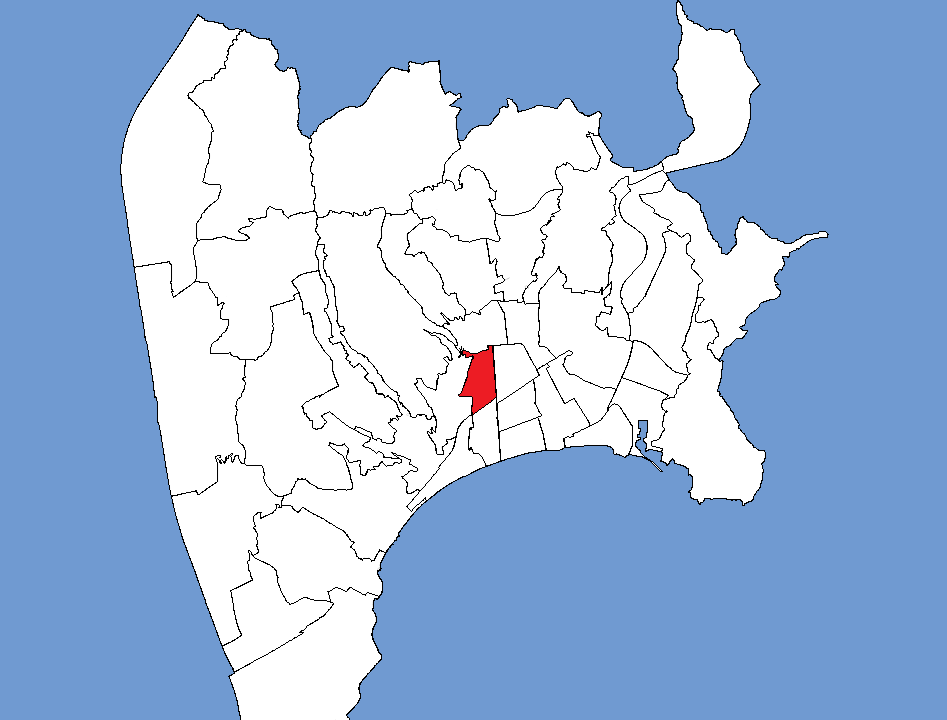 Location of the neighbourhood Le Piol in Nice